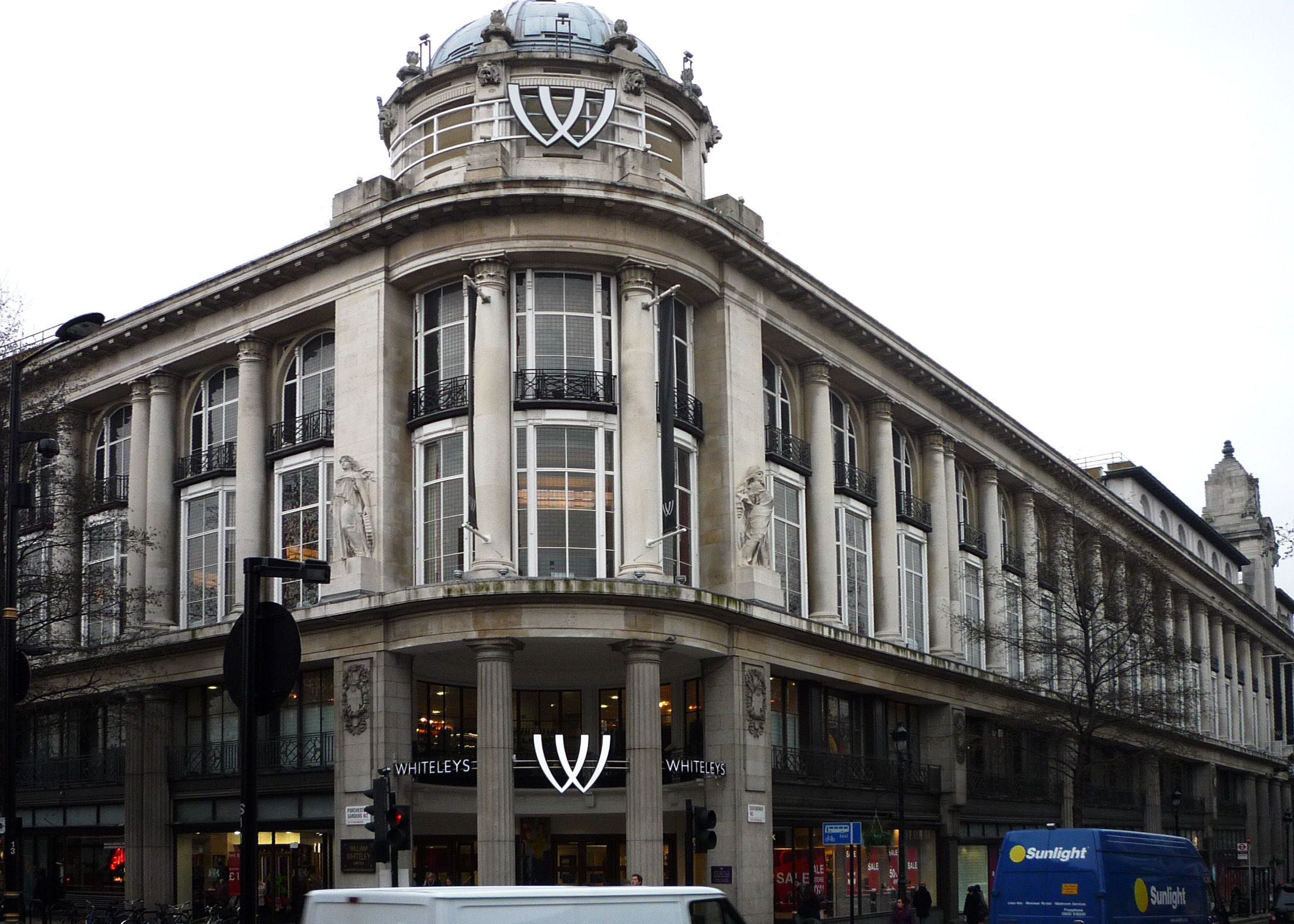 Whiteleys, Mall, London (01).jpg